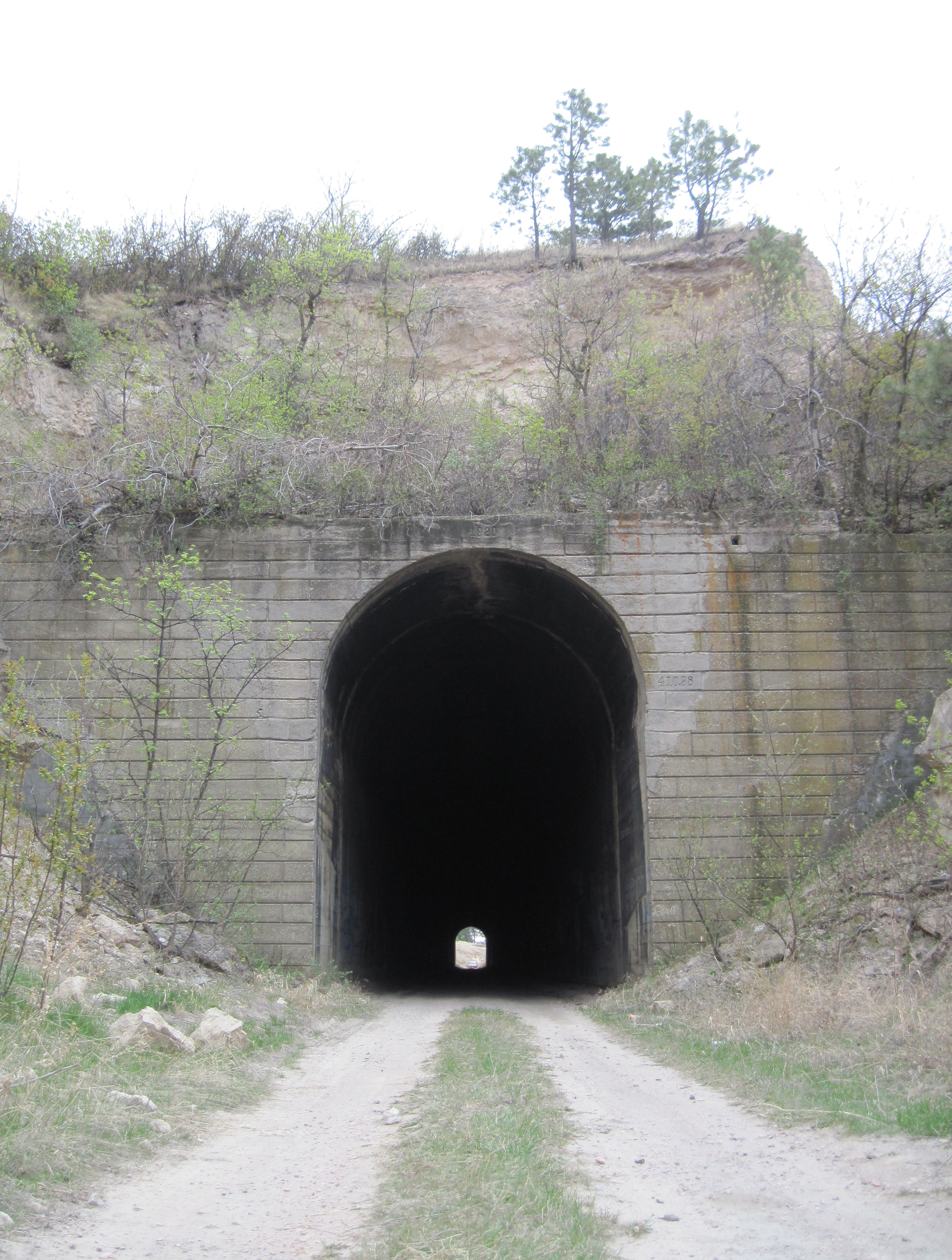 Vertical shot of the north end of the Belmont Tunnel near the ghost town of Belmont, Nebraska.